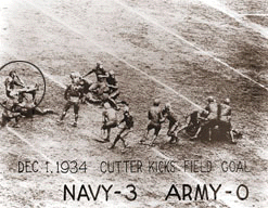 CDR Slade Cutter in star football performance